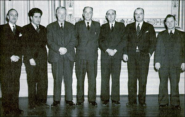 The London Delegation from the Newfoundland Convention prior to the Newfoundland referendums, 1948.